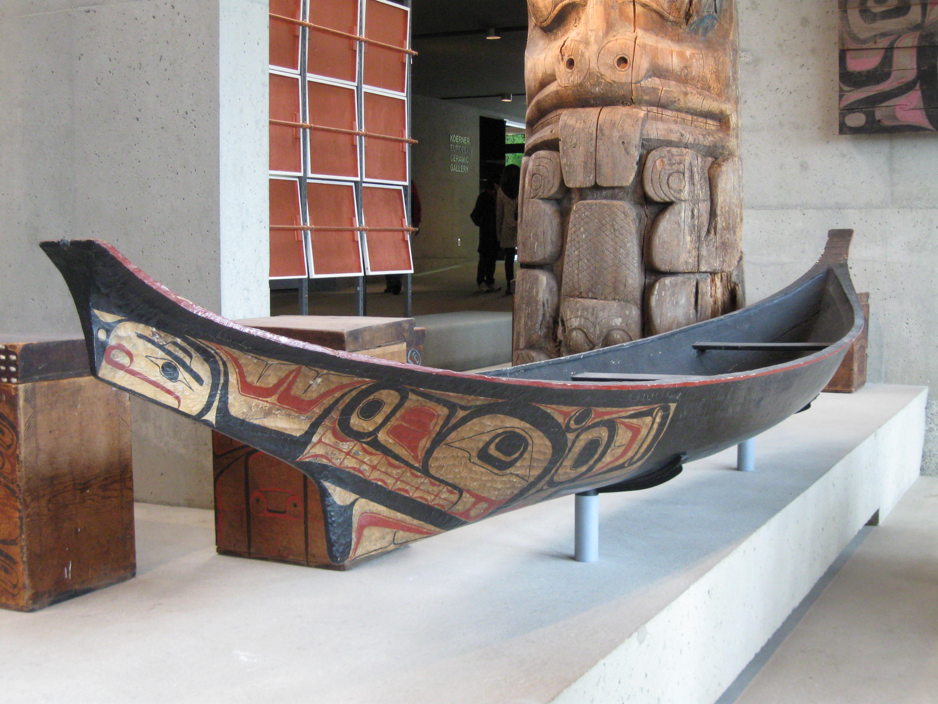 This canoe was carved and painted by David Shant's assistants around 1934. The canoe was made by the native Indian Haisla members of the Kitimat Athlete club. It was donated as a gift to the UBC Museum of Anthropology in Vancouver, Canada in 1948...where it is displayed today.